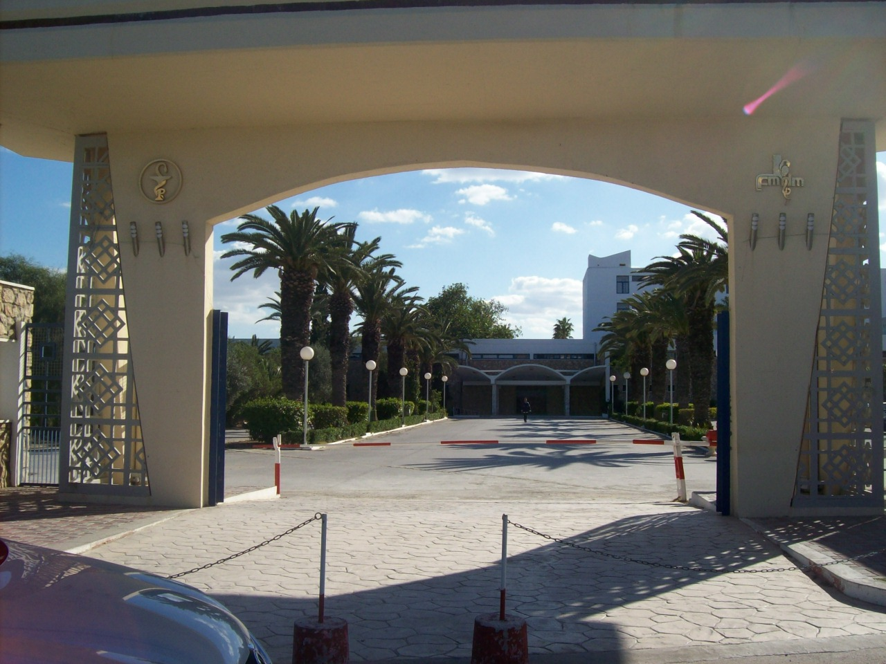 Entrance to the Faculty of Dentistry and Faculty of Pharmacy of Monastir (Tunisia)